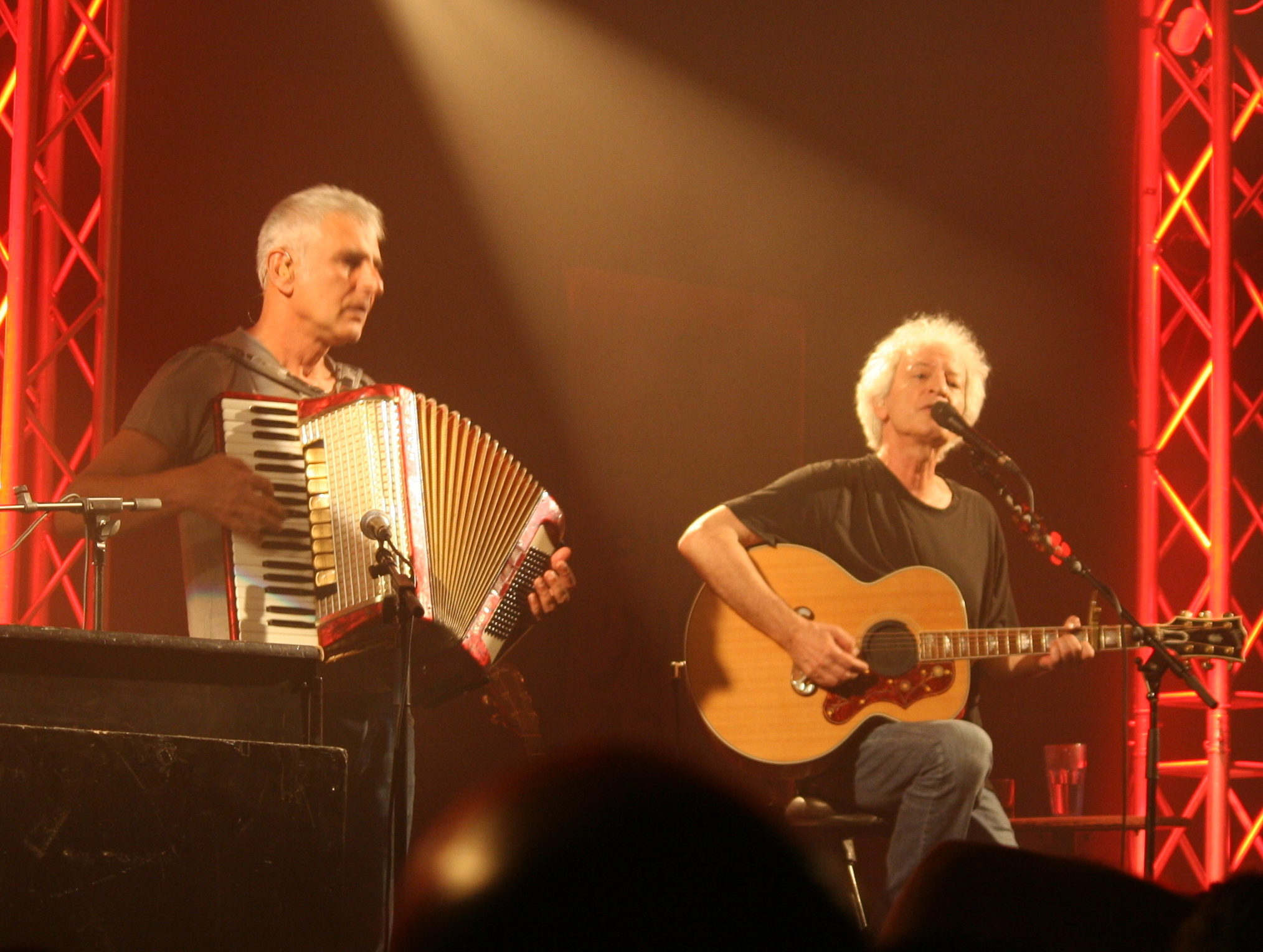 Shalom Hanoch and Moshe Levi